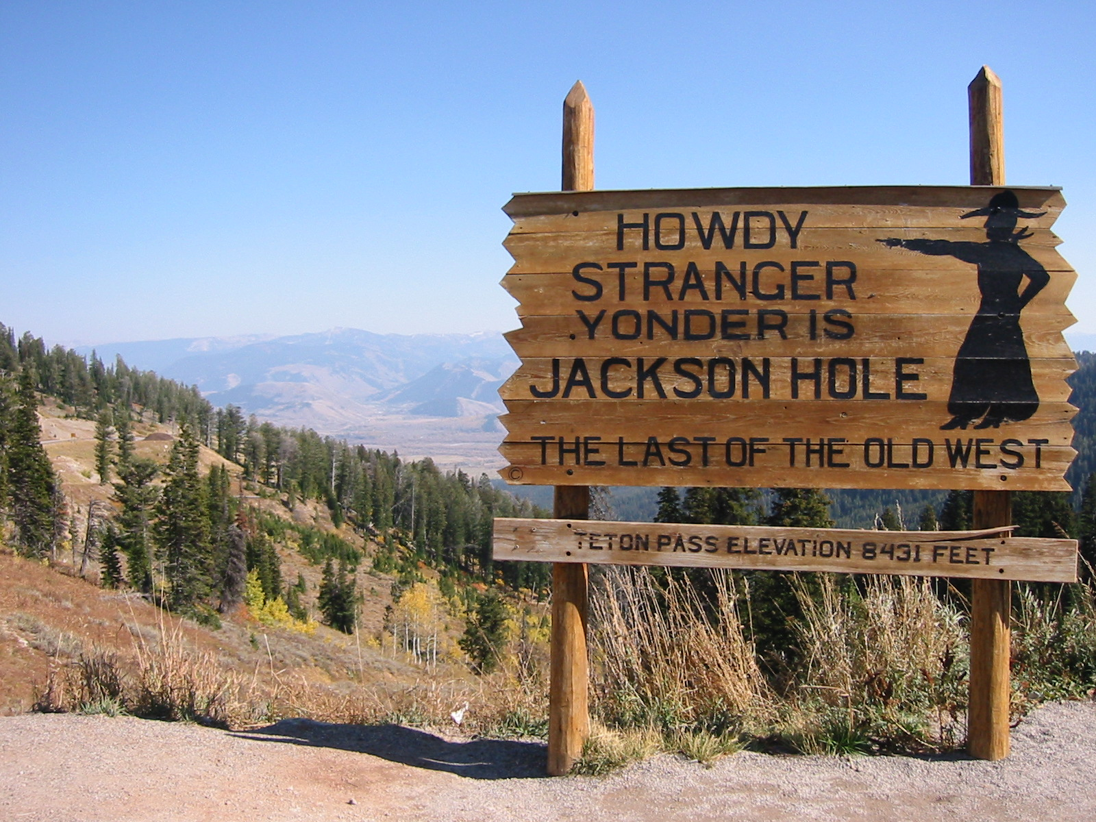 photographed by uploader - free license